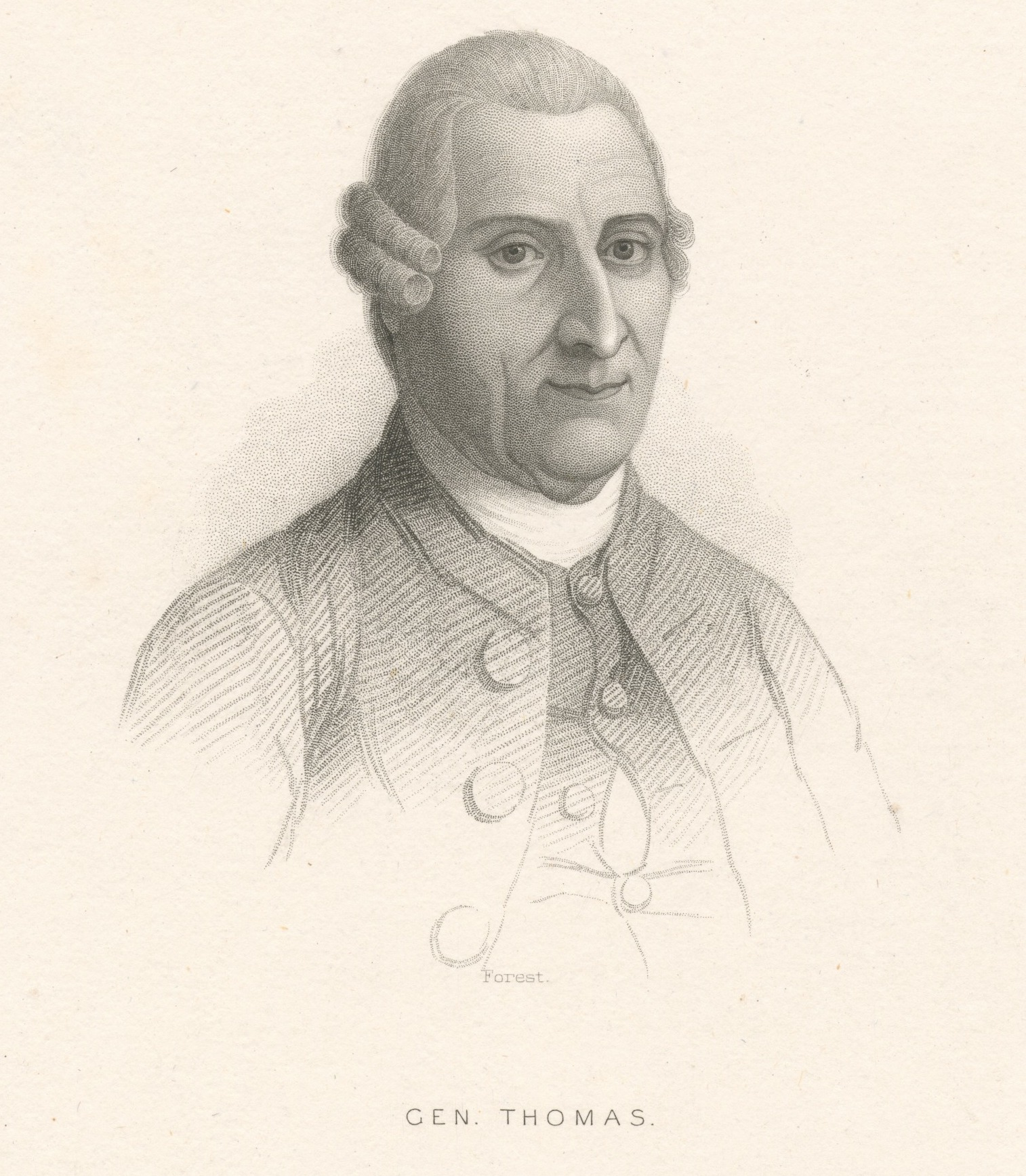 EM3580